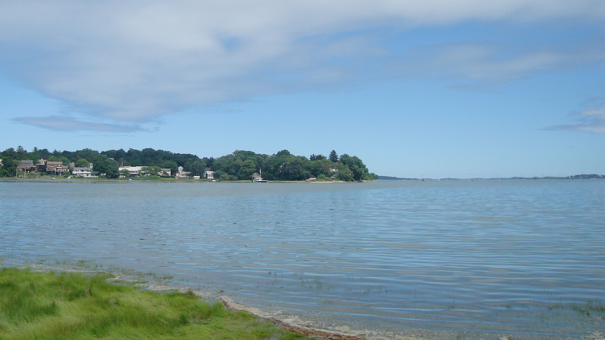 View of from the west side of Quincy Bay, part of Boston Harbor in Massachusetts, United States, looking east toward Peddocks Island and Hough's Neck on the right in the distance and the Squantum peninsula closer on the left.